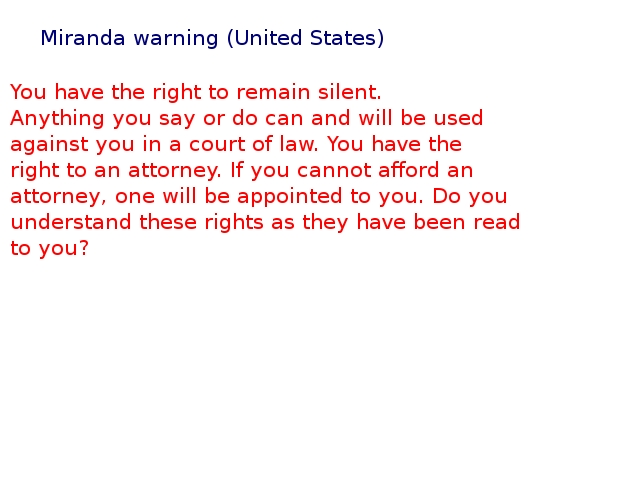 This is the infamous "Miranda warning". It's words which police officers in the United States are required to read when arresting people to inform them about their "rights". It is used for a Wikipedia article on "Rights". I typed in the warning on a paint program and uploaded the image. There are no copyright issues regarding the words since it's a matter of public record. Sometimes the wording varies slightly depending on which state the arrest happens in.